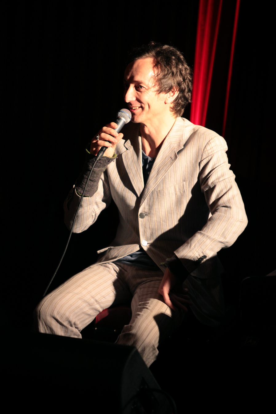 Volker Bertelmann alias Hauschka during a performance in The Sugar Club, Dublin in 2009